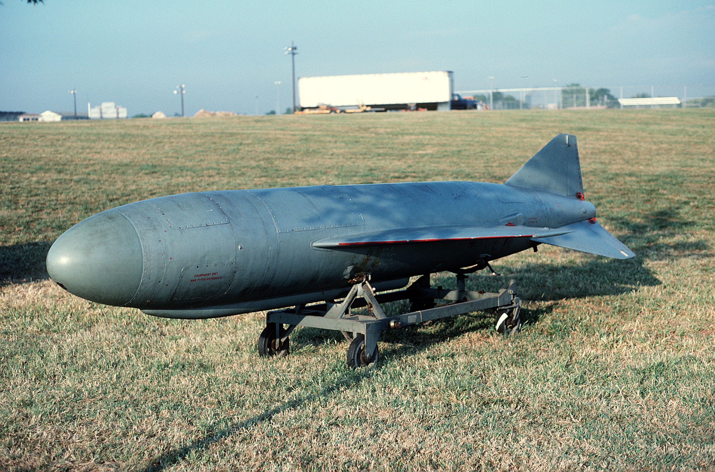 A left front view of a Soviet SS-N-2 Styx anti-ship missile on a transport dolly. The missile is on display at Bolling Air Force Base. Photographer's Name: Don S. Montgomery Location: WASHINGTON Date Shot: 10/1/1986 Date Posted: unknown VIRIN: DN-ST-87-00345